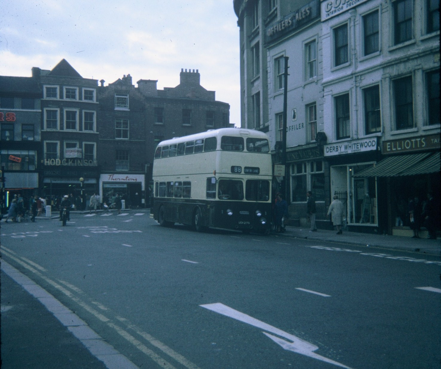 A bus in Market Place, Derby. Taken in September 1968, this photo shows 217 (UCH 217G) a Daimler Fleetline with Roe 78-seater bodywork in Market Place about to leave on route 88 to Sinfin Lane on the southern edge of Derby. This vehicle was operated by Derby... more